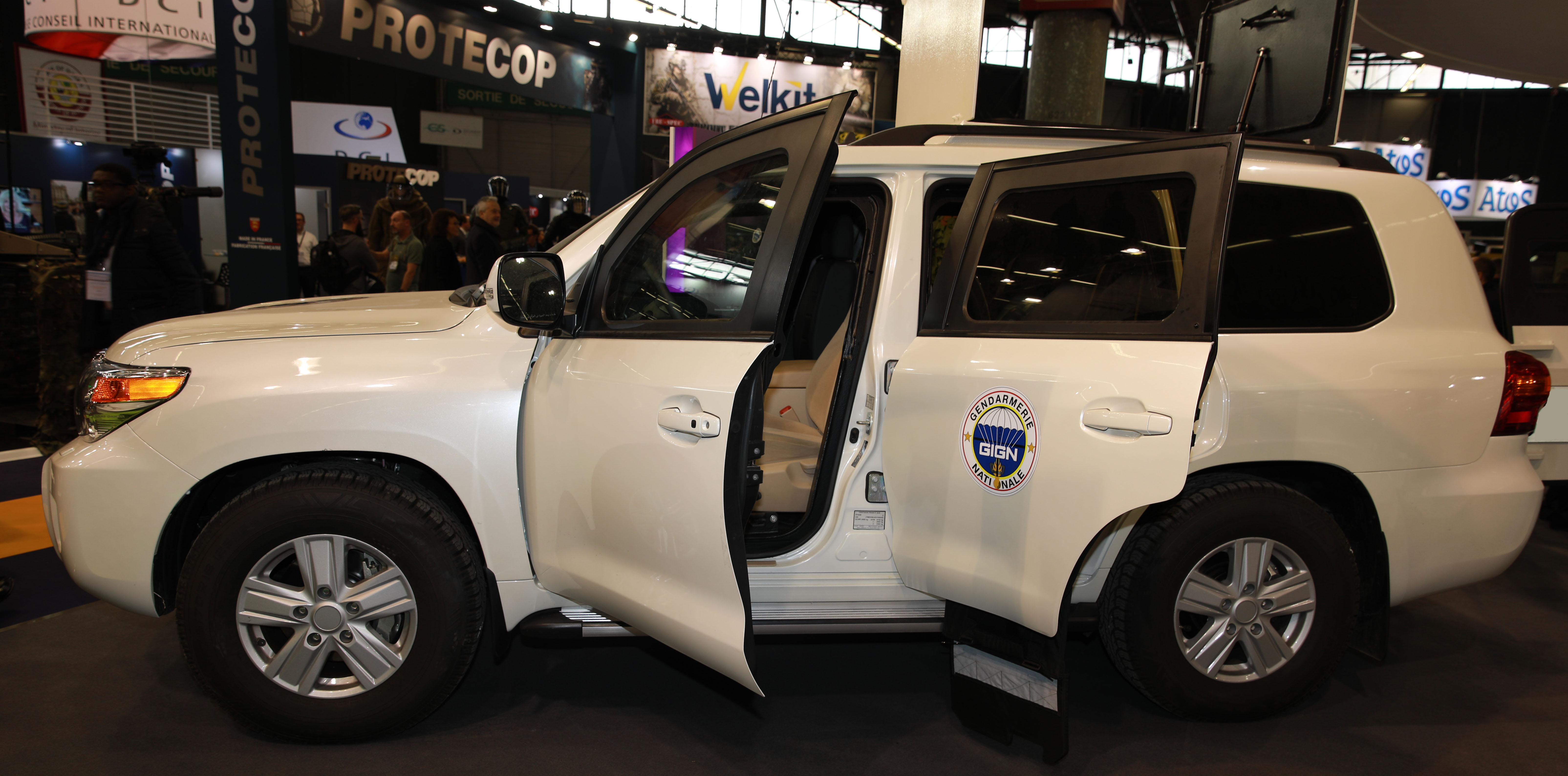 GIGN Centigon armored SUV